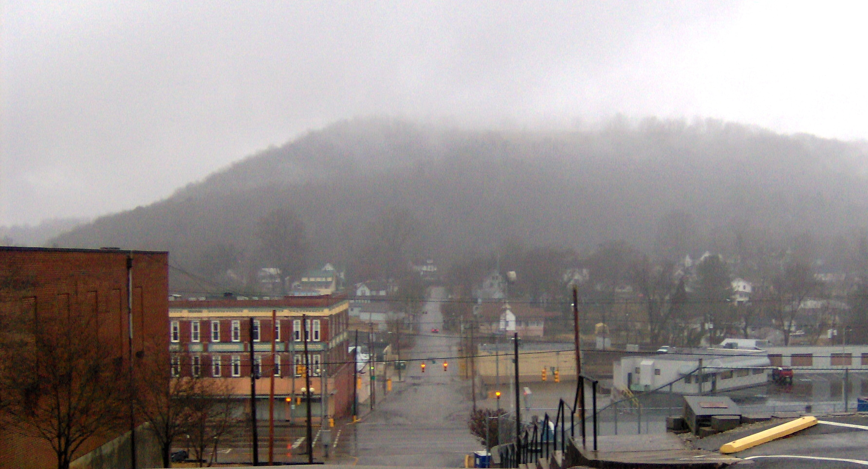 Crescent Avenue, view looking northwest from Cornstalk Heights, in Harriman, Tennessee, USA. The traffic lights mark the road's intersection with Roane Street, which runs left-to-right across the image. Walden Ridge, part of the Cumberland Plateau, dominates the horizon, with Emory Gap to the left of Walden Ridge. The building at the corner of Roane and Crescent (with the windows facing) is block 527-551 Roane Street, a contributing property in the NRHP-listed Roane Street Commercial Historic District.